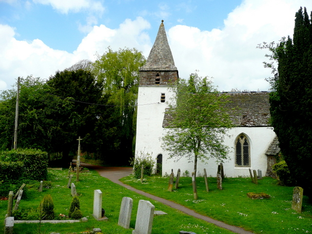 St. Peter's church, Dixton Despite its riverside location the building allegedly hardly ever floods. View from the south.